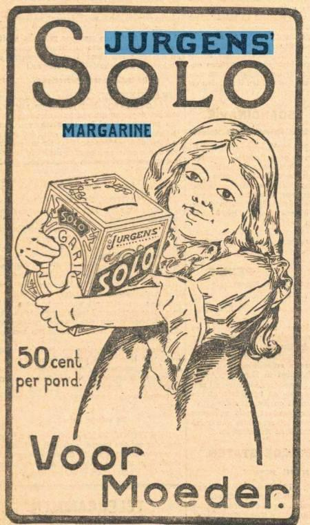 Reclame voor Jurgens margarine